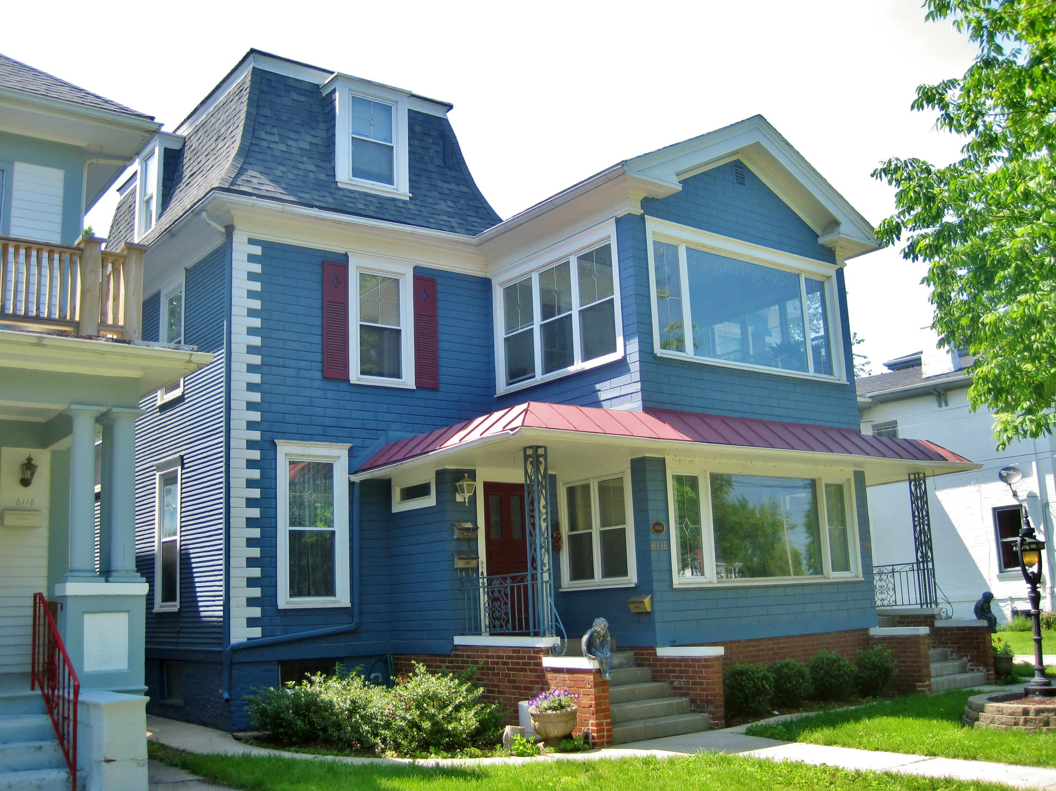 Orson Welles Birthplace in the Library Park Historic District, Kenosha, WI (1880). Orson's paternal grandmother was Mary Head Welles, who married Frederick Gottfredsen. Orson's father was born of Mary's previous marriage. Orson's parents first lived together in Frederick Gottfredsen's house before moving into an apartment in this house shortly before Orson was born. Orson's father Richard Welles was a partner in the Badger Brass Manufacturing Company. His family separated and moved to Chicago when Orson was about five years old. Welles would go on to become one of the greatest film directors and actors of all time.